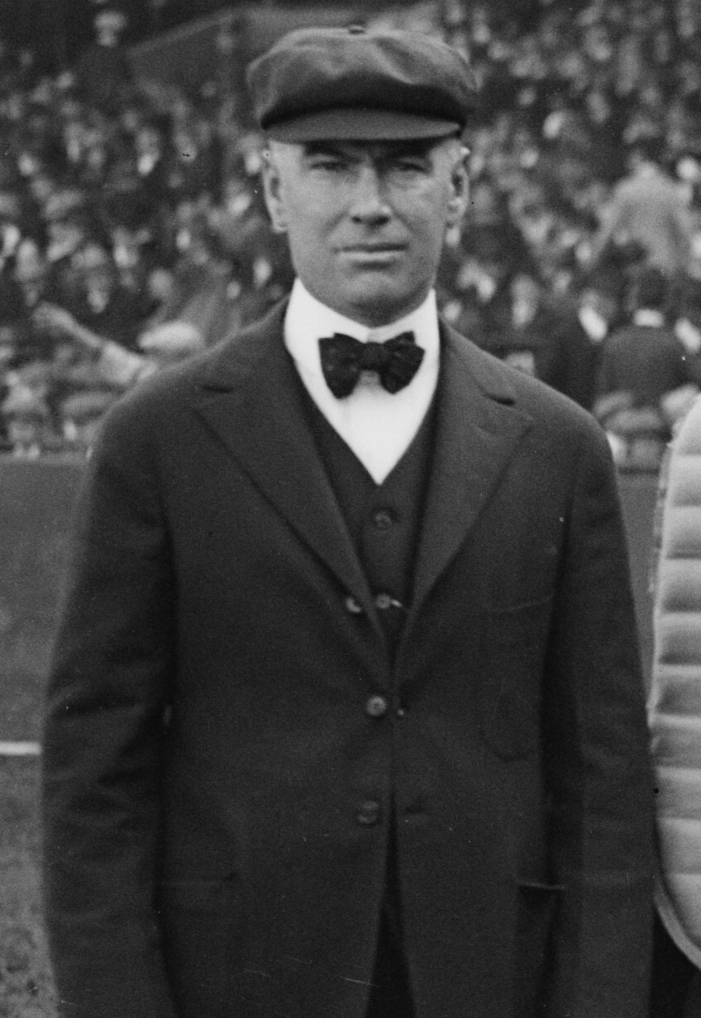 Umpire Ernie Quigley at the 1916 World Series